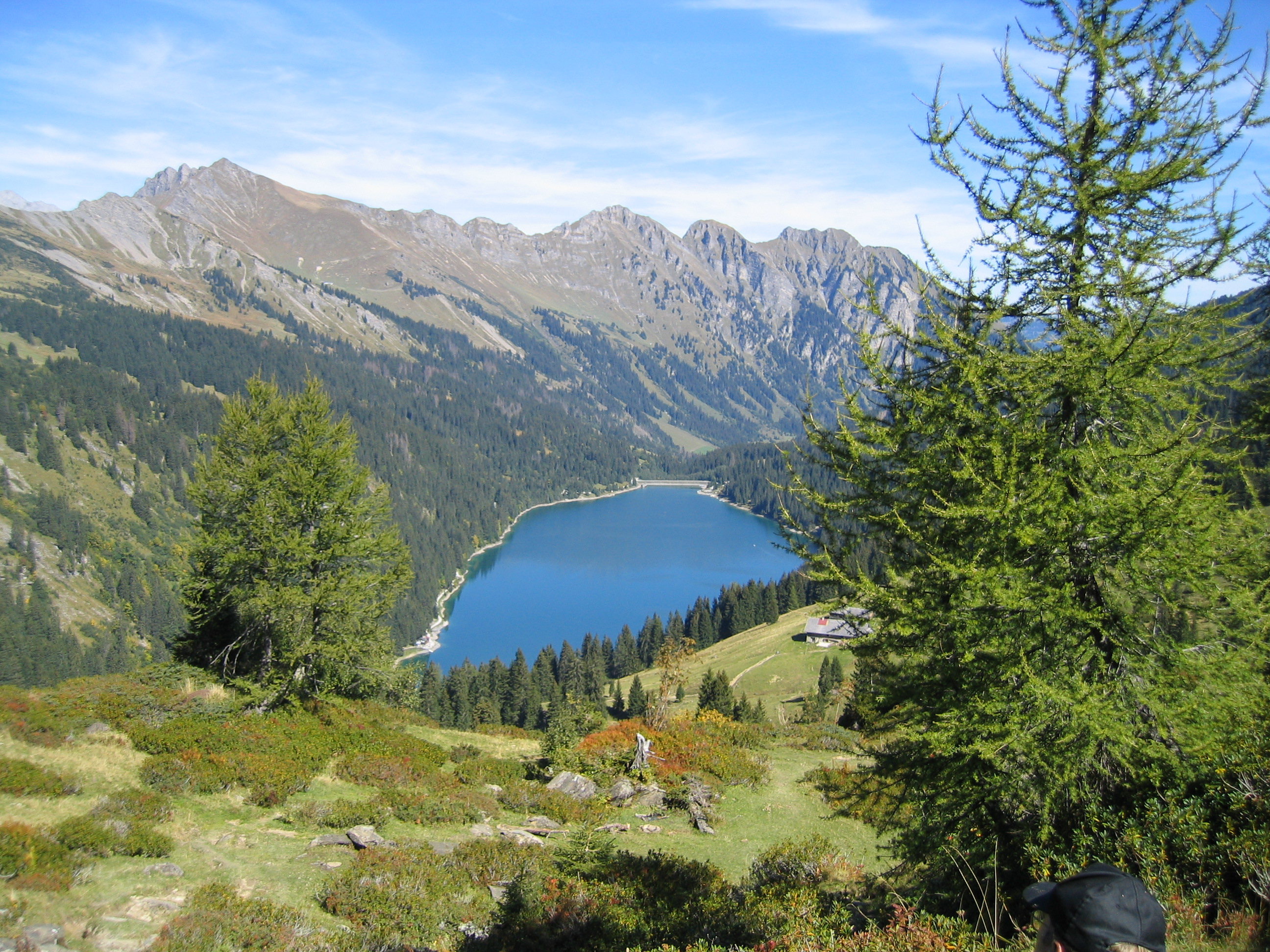 The lake Arnensee, close to the village Gsteig bei Gstaad, Canton of Berne, Switzerland. The reservoir exists since 1942.